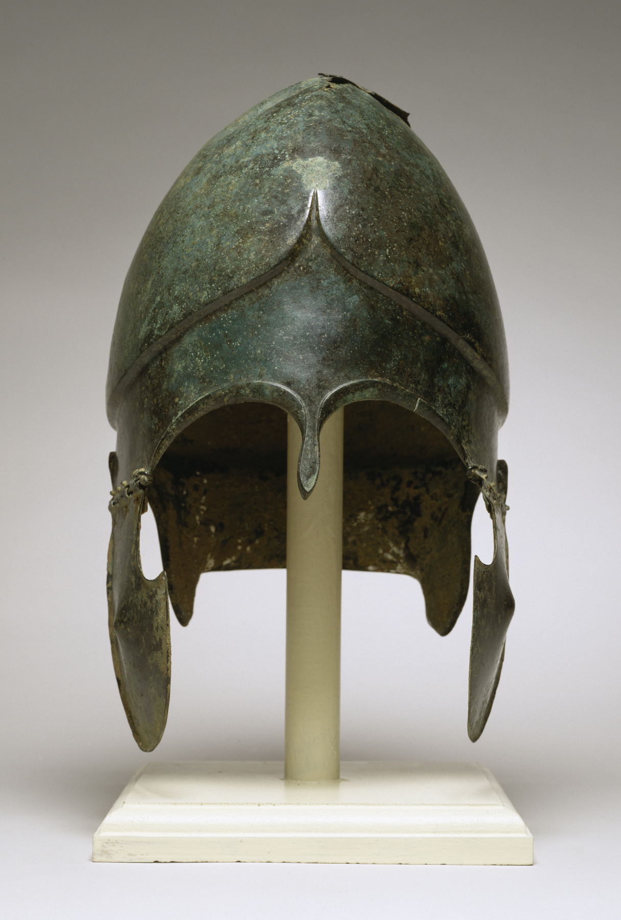 The form of this helmet, known as Chalcidian, is distinguished by the curved cheekpieces, which are attached here by pins that are terminating into the snake heads. For a Greek youth, the acquisition of a helmet was a long-awaited badge of manhood. Each helmet had to be custom-made and was typically lined with leather. A helmet was customarily hung on the wall of the owner's house during his lifetime and, especially in early times, would also be buried with him. The advance in Greek technology that made possible the widespread production of hammered bronze helmets also led to the mass production of shields. As a result, on the battlefield individual duels were superseded by the phalanx, a form of combat in which warriors advanced together as an almost impenetrable wall of weaponry.